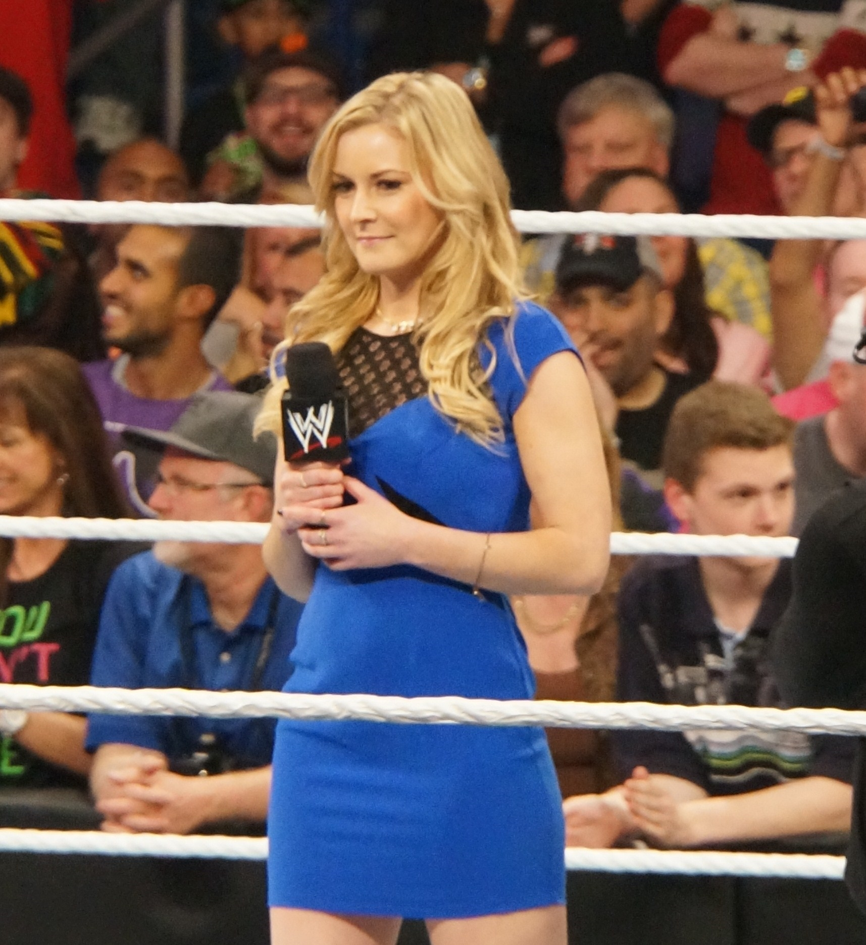 Renee in April 2014.